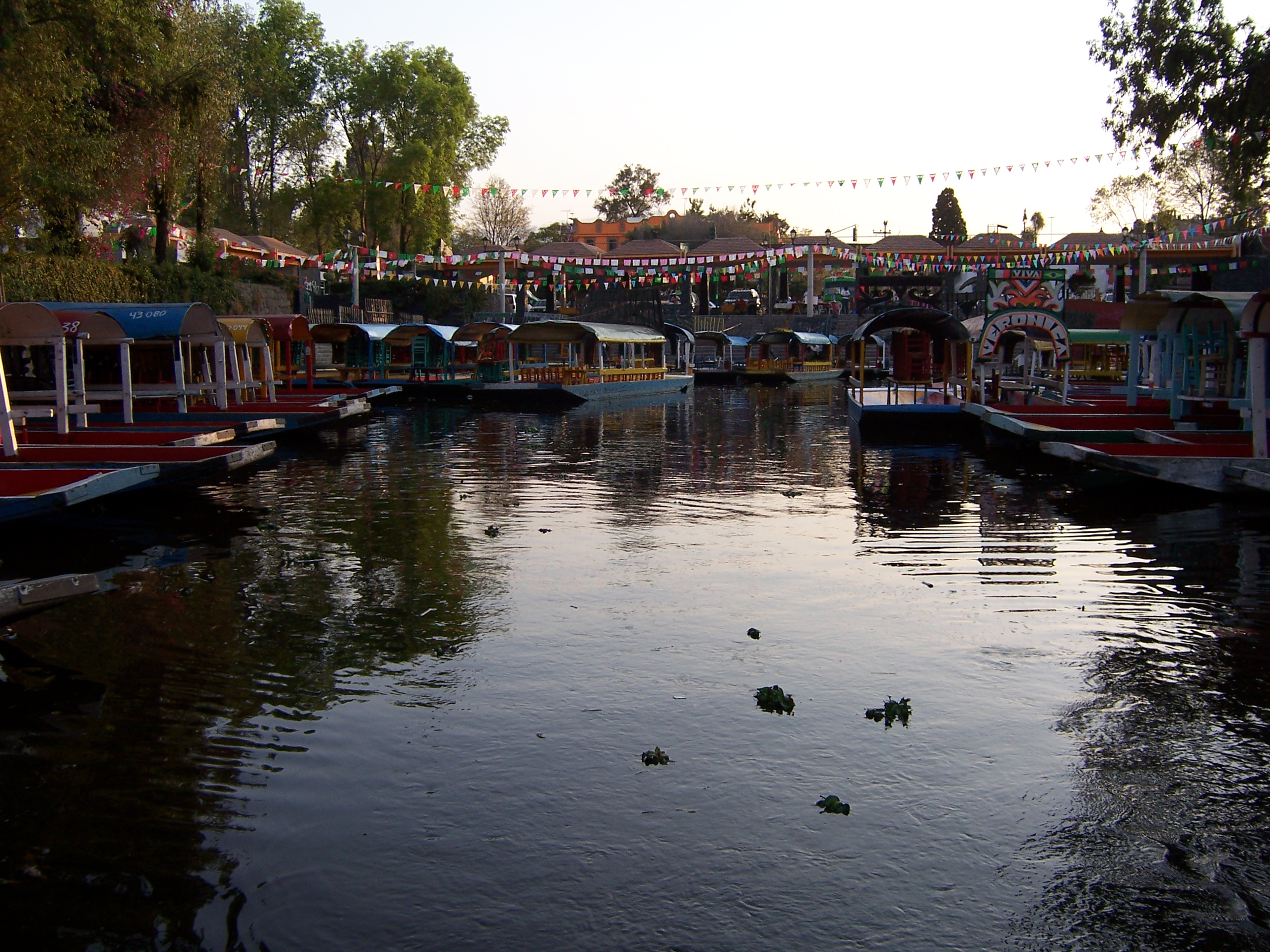 Trajineras - Typical boats from Xochimilco